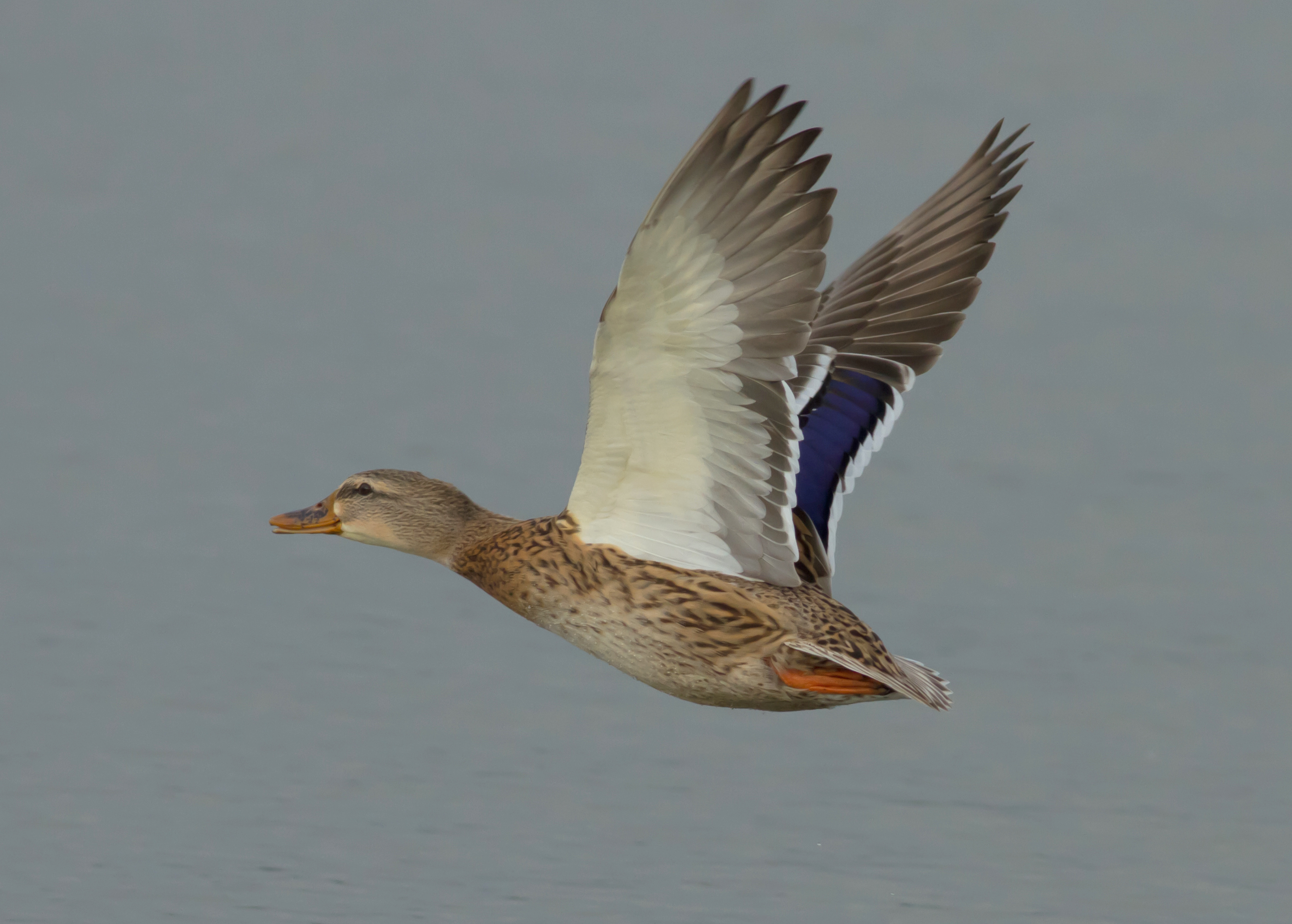 An female Mallard flying in Texas, USA.